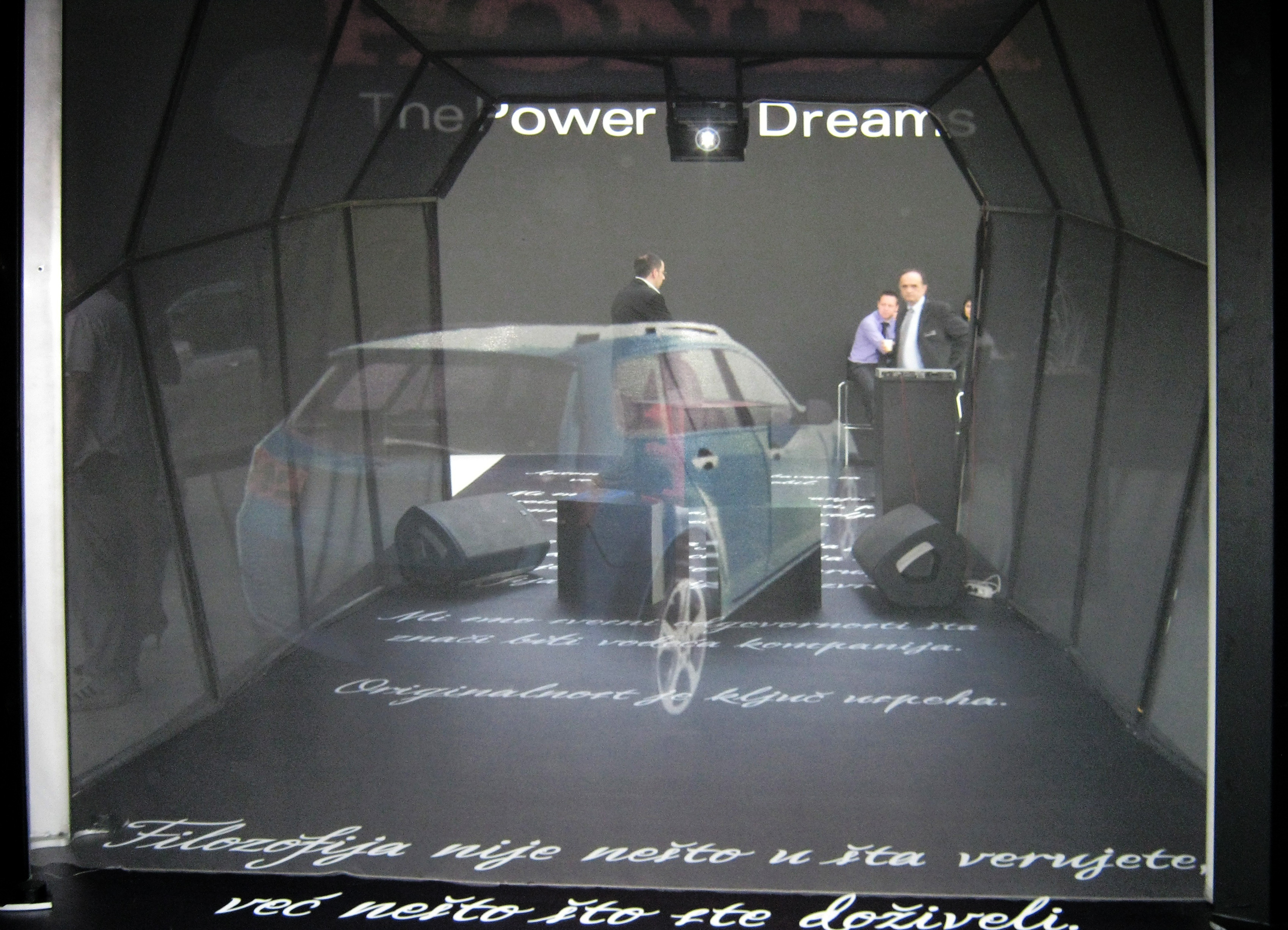 Holographic image of car,49th International Motor Show,Belgrade.(this is not a hologram, but a peppers ghost effect!)